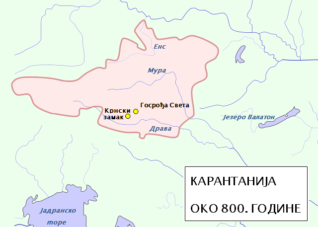 Carantania (Karantanija) at 800 AD; for approximate borders: look at Inzko Valentin (1978): Zgodovina Slovencev do leta 1918. Mohorjeva založba, Celovec. Str. 21; Čepič Zdenko et al. (1979): Zgodovina Slovencev. Cankarjeva založba, Ljubljana 1979, str. 127 in 133; Peršič Janez et al. (1983): Stare kulture. Mladinska knjiga, Ljubljana, str. 144.